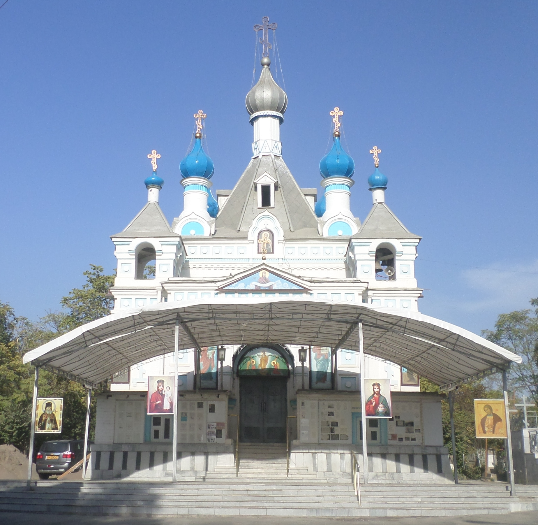 Church of St. Alexander Nevsky Cathedral in Tashkent